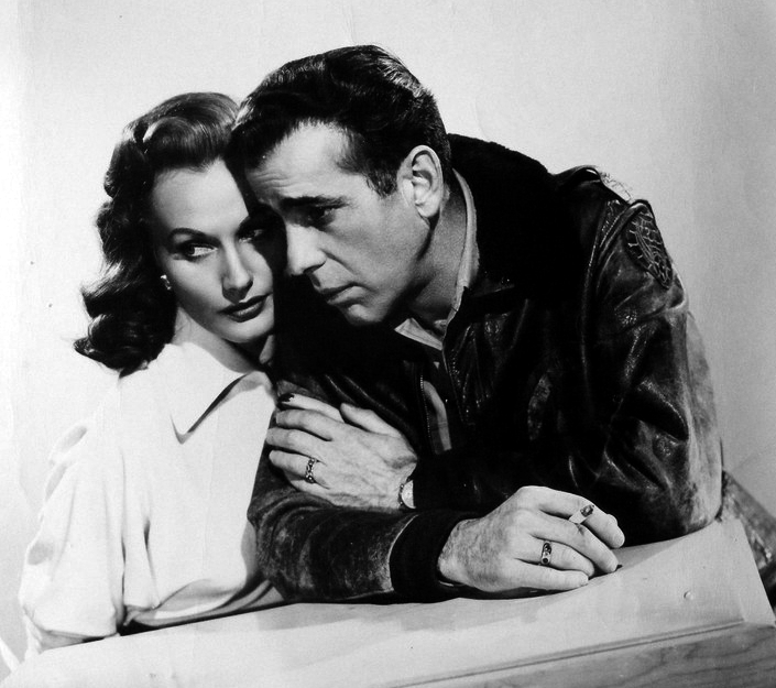 Photo of Florence Marly and Humphrey Bogart from the film Tokyo Joe as published in the September 1950 issue of Screenland magazine. Note the uploaded photo is a larger, better copy of the one seen in the Screenland article. A search for renewal was done in publications for the year 1977. There were no listings for the title Screenland. The search continued at for the year 1978. There were no renewals for this title shown. There were only new registrations and none of them are connected with a book/magazine/newspaper. There's no evidence of continuing copyright on the magazine Screenland.